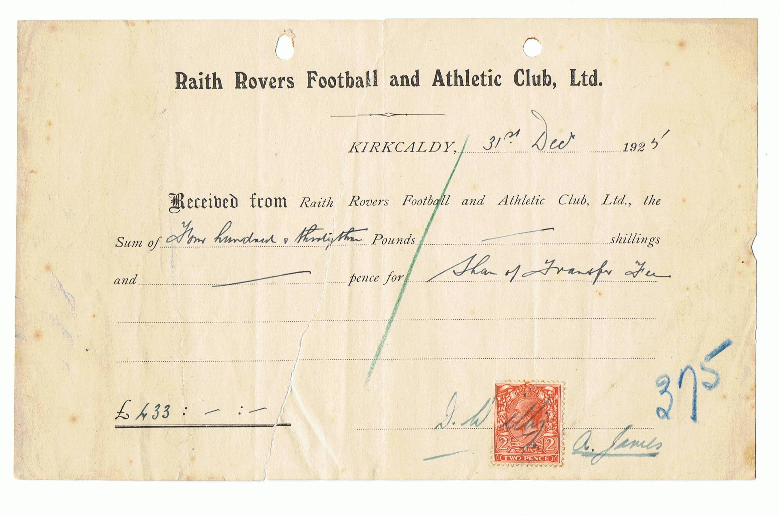 Receipt for the player's share of the £3000 signing fee paid by Preston North End to Raith Rovers for Alex James in 1925, dated 31st December.